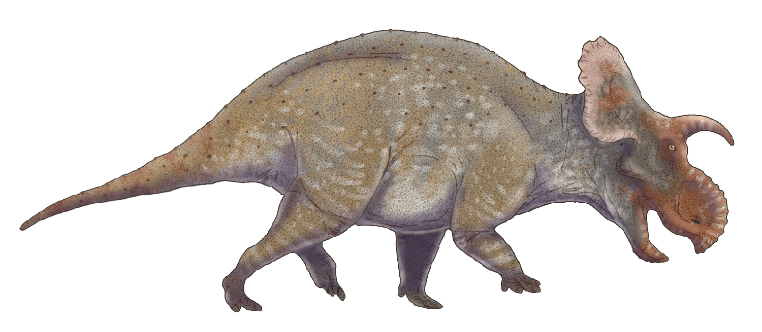 Life restoration of Crittendenceratops